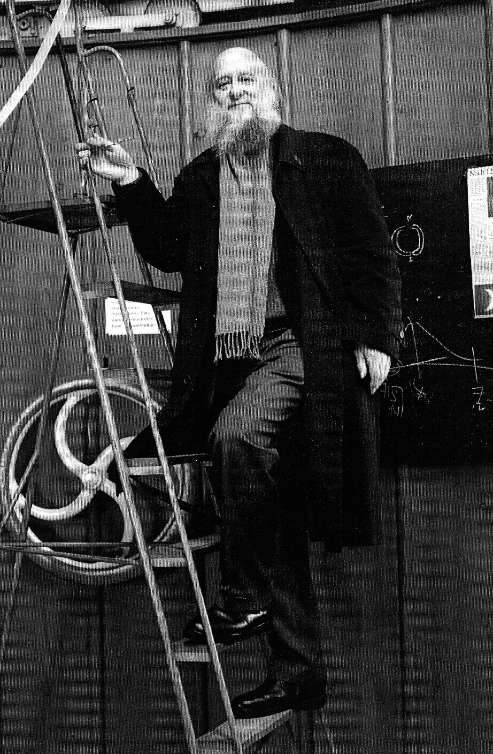 Photograph was taken for publication "Habitat Im All"